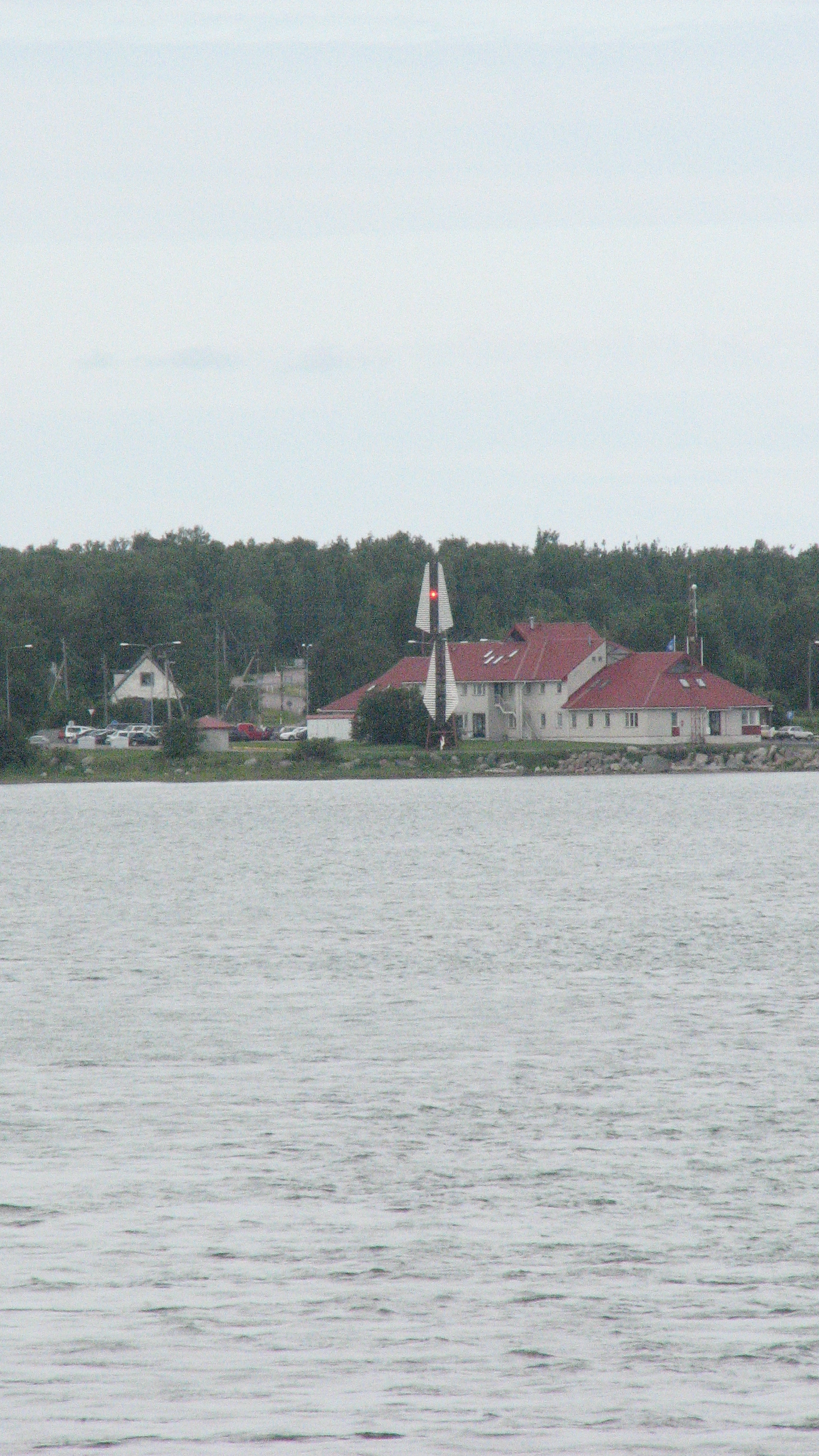 Heltermaa range light. Hiiumaa, Estonia